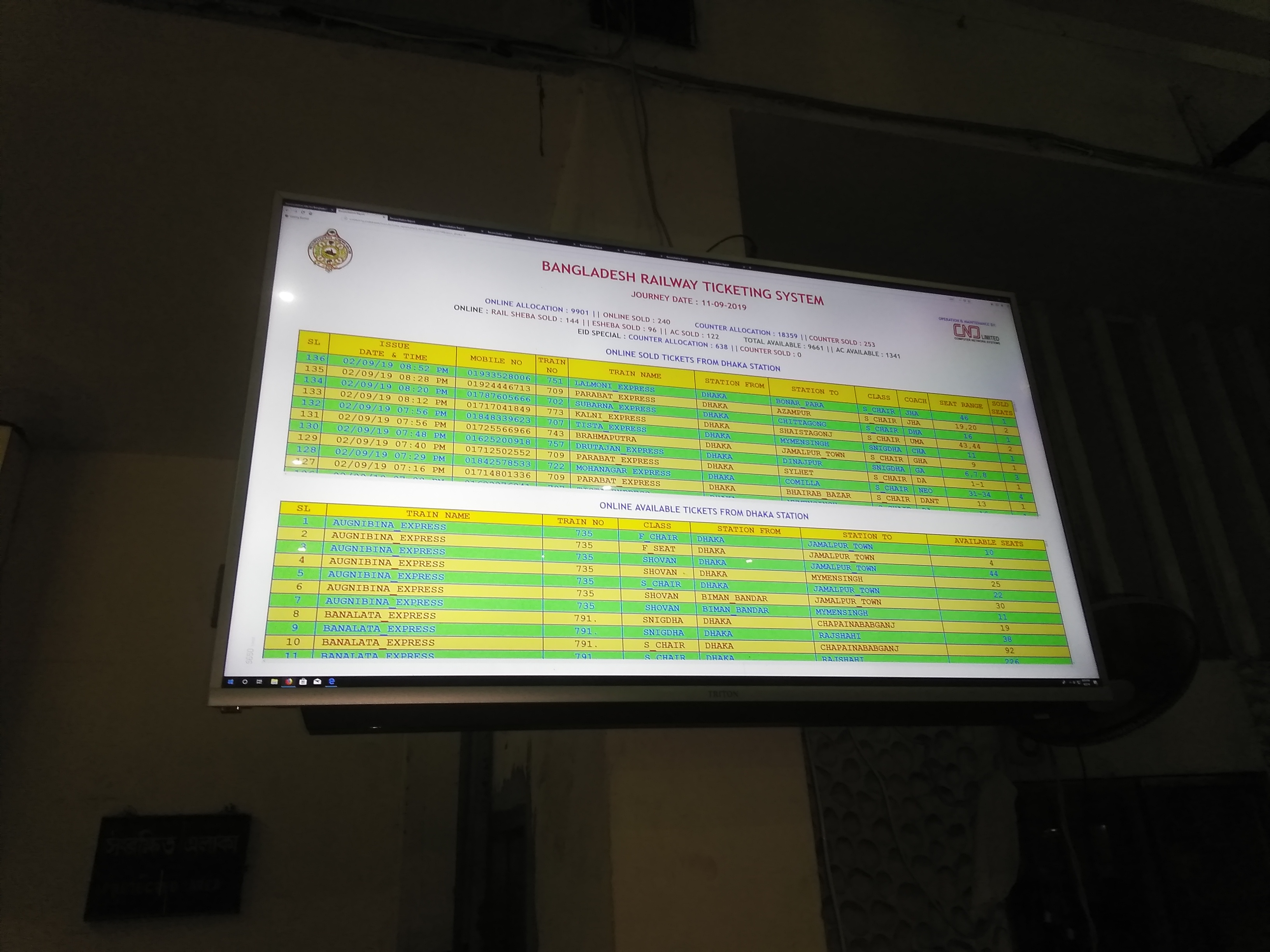 The board shows the record of incoming and upcoming train in kamlapur railway station